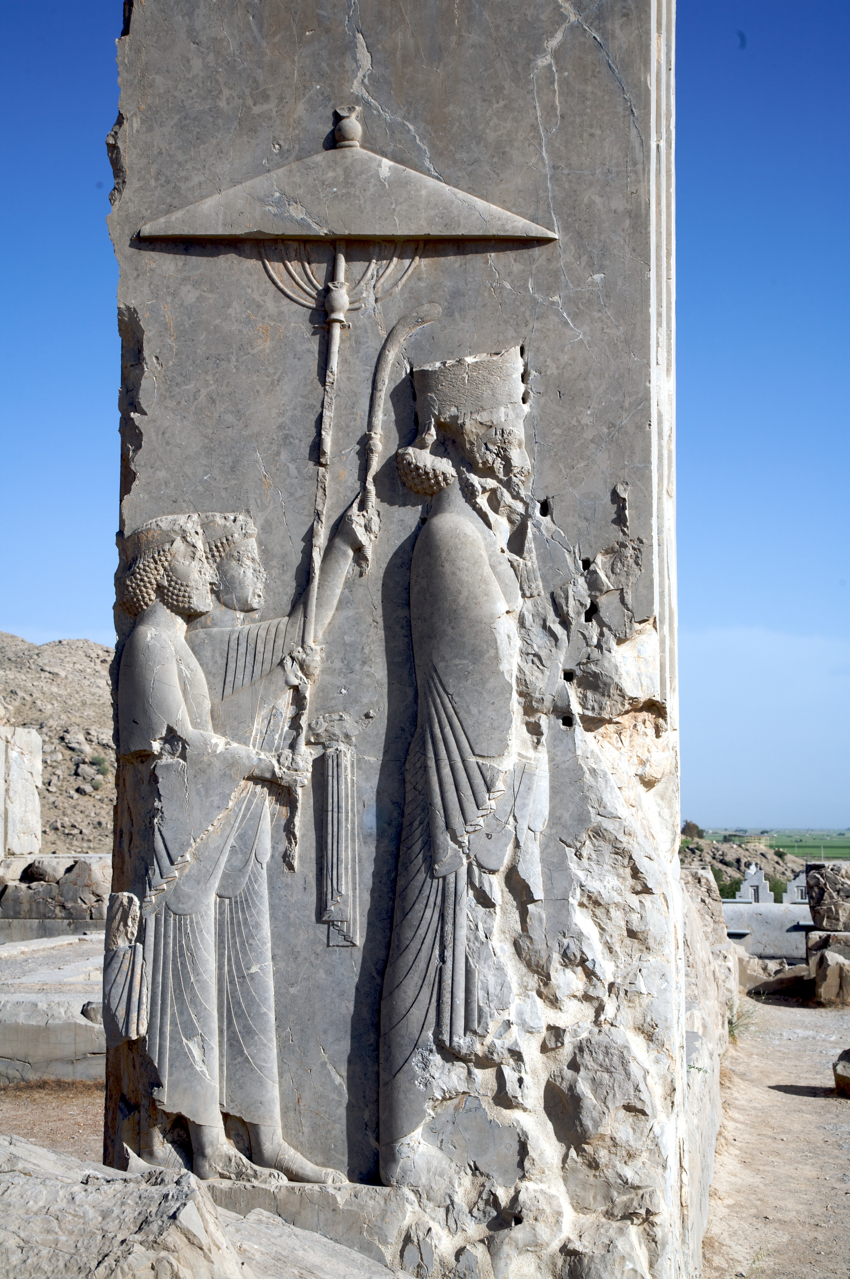 Persepolis, Iran